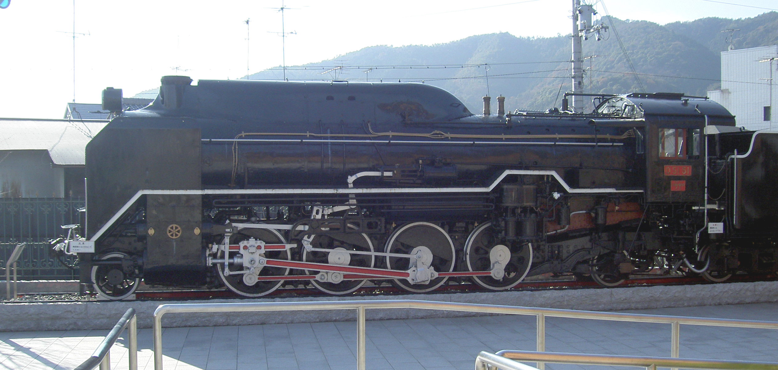 Early D51 steam loco, aka "Namekuji"